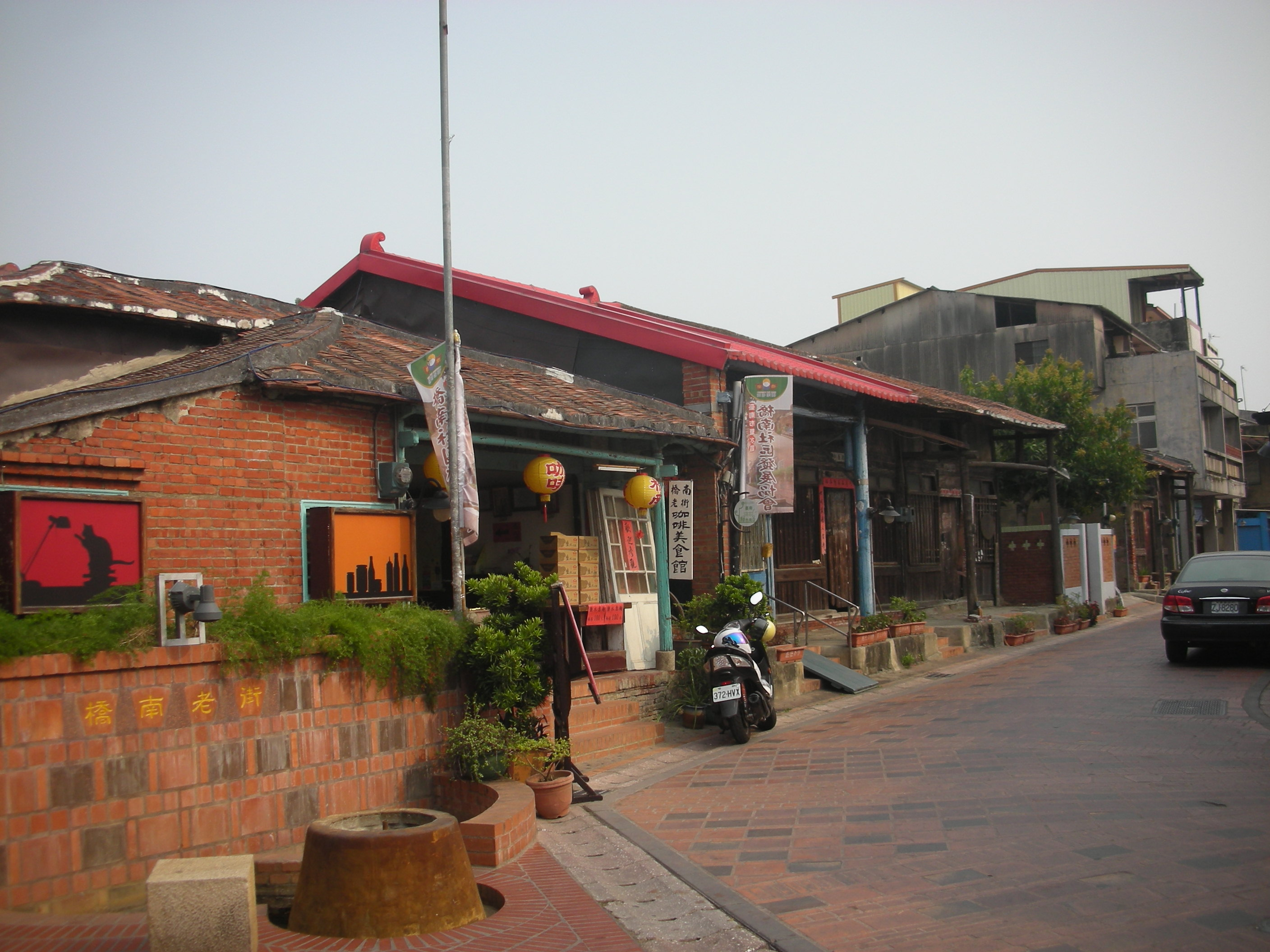 古樸的橋南老街(台南鹽水) Yanshui South-bridge Old Street